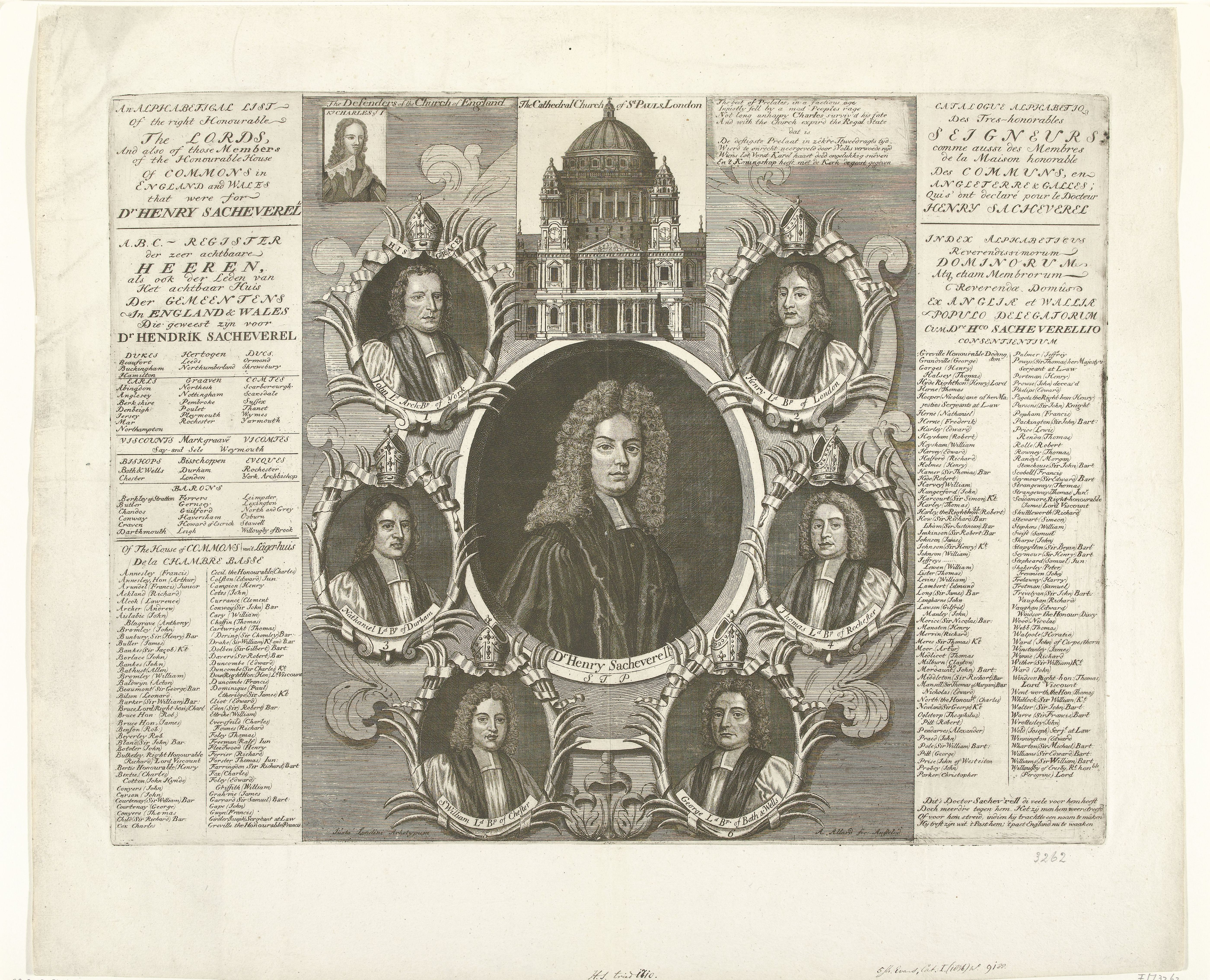 List of members of parliament proposed to Dr. Henry Sacheverell, 1710 An Alphabetique List of the right Honorable The Lords And also of those Members of the Honorable House Of Common's in England and Wales that were for Dr. Henry Sacheverell (title on object) A.B.C.-Register of the very esteemed Lords, as well as of the Members of the esteemed House of Municipalities in England & Wales who have been for Dr. Henry Sacheverell (title on object) List of members of the English Parliament who are involved in the trial of the English preacher Dr. Henry Sacheverell voted for him, February-March 1710. Central portrait of Sacheverell surrounded by six bishops and the front of St. Paul's in London. Part of a group of separate cartoons on Louis XIV during the War of the Spanish Succession, c. 1701-1713. print maker: Abraham Allard (mentioned on object) after print by: anonymous